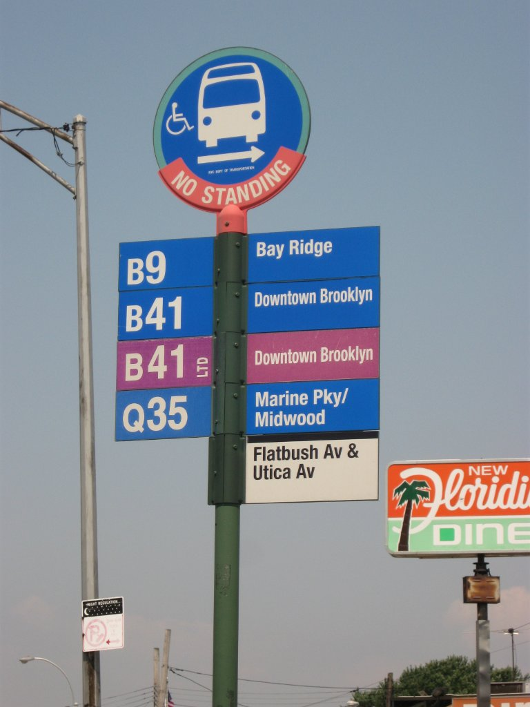 A typical New York City bus stop sign, with location indicated in the picture.